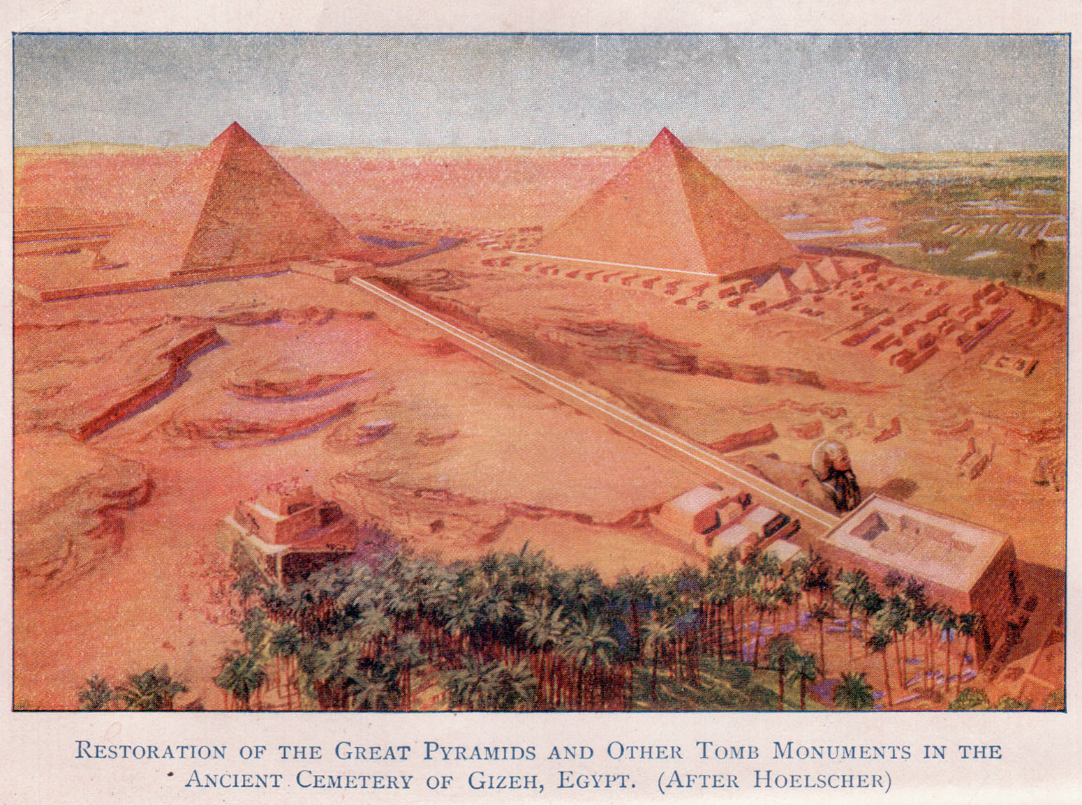 "Restoration of the Great Pyramids and Other Tomb Monuments In the Ancient Cemetery of Gizeh, Egypt (after Hoelscher) This image is a scan from the book, "History of Europe Ancient and Medieval" by James Henry Breasted and James Harvey Robinson, Copyright 1920 by Ginn and Company. The colored illustration is on the first page of the book. Flickr data on 2011-08-16: Tags: illustrations, vintage, book, history, copyright free, public domain, color, History of Europe License: CC BY 2.0 User: perpetualplum Sue Clark